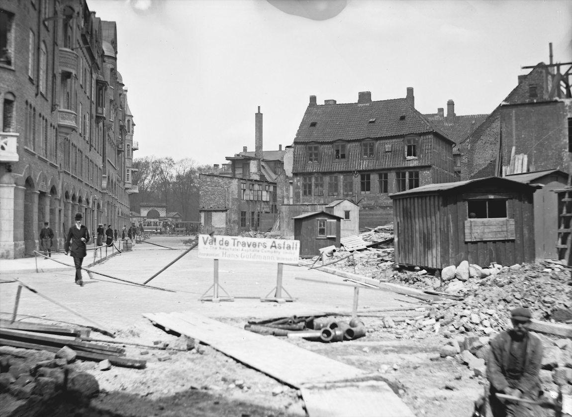 Christian IX's Gade from the corner of Lille Tegnegade in Copenhagen, Denmark